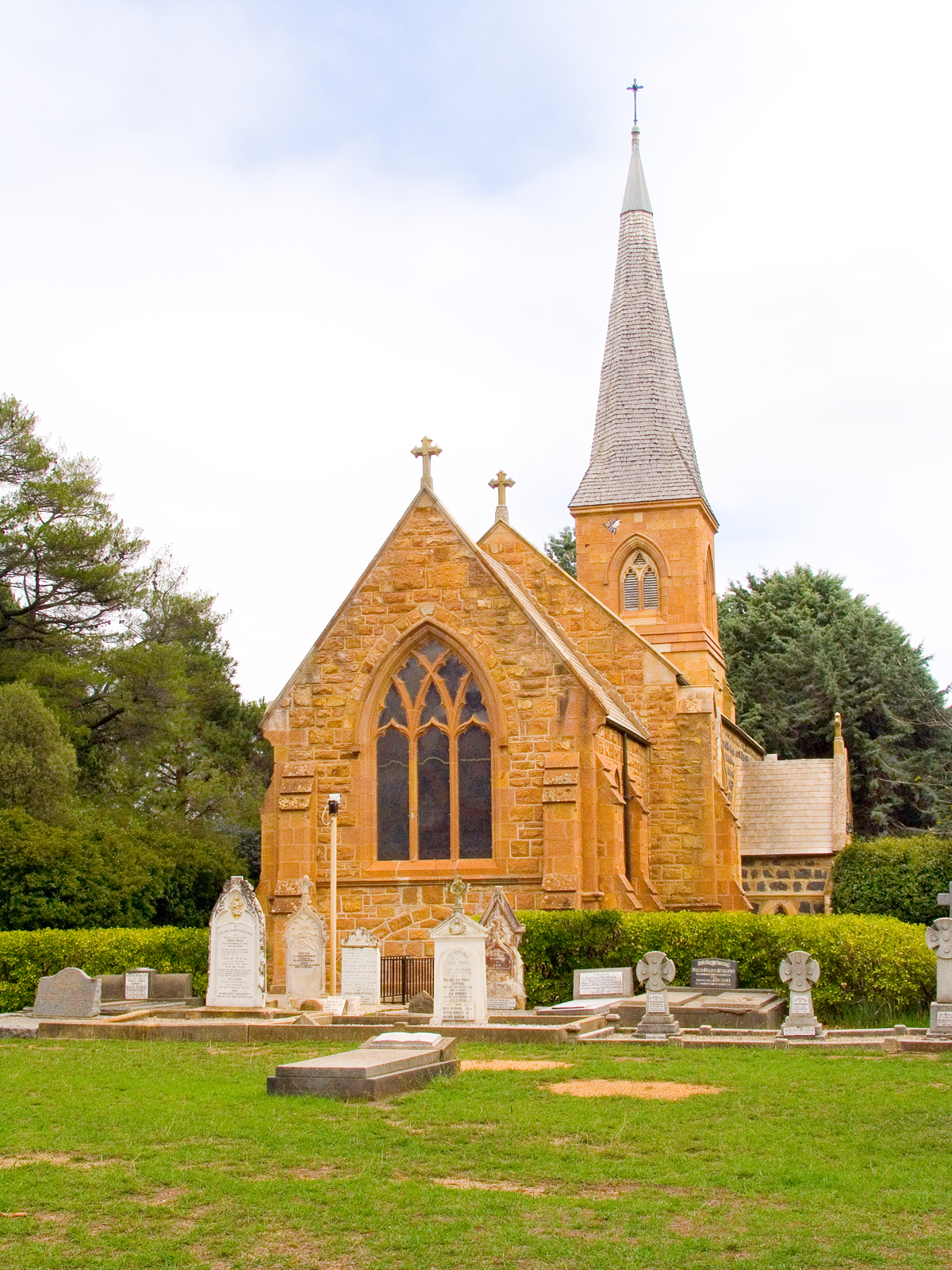 Church of St Johns Canberra